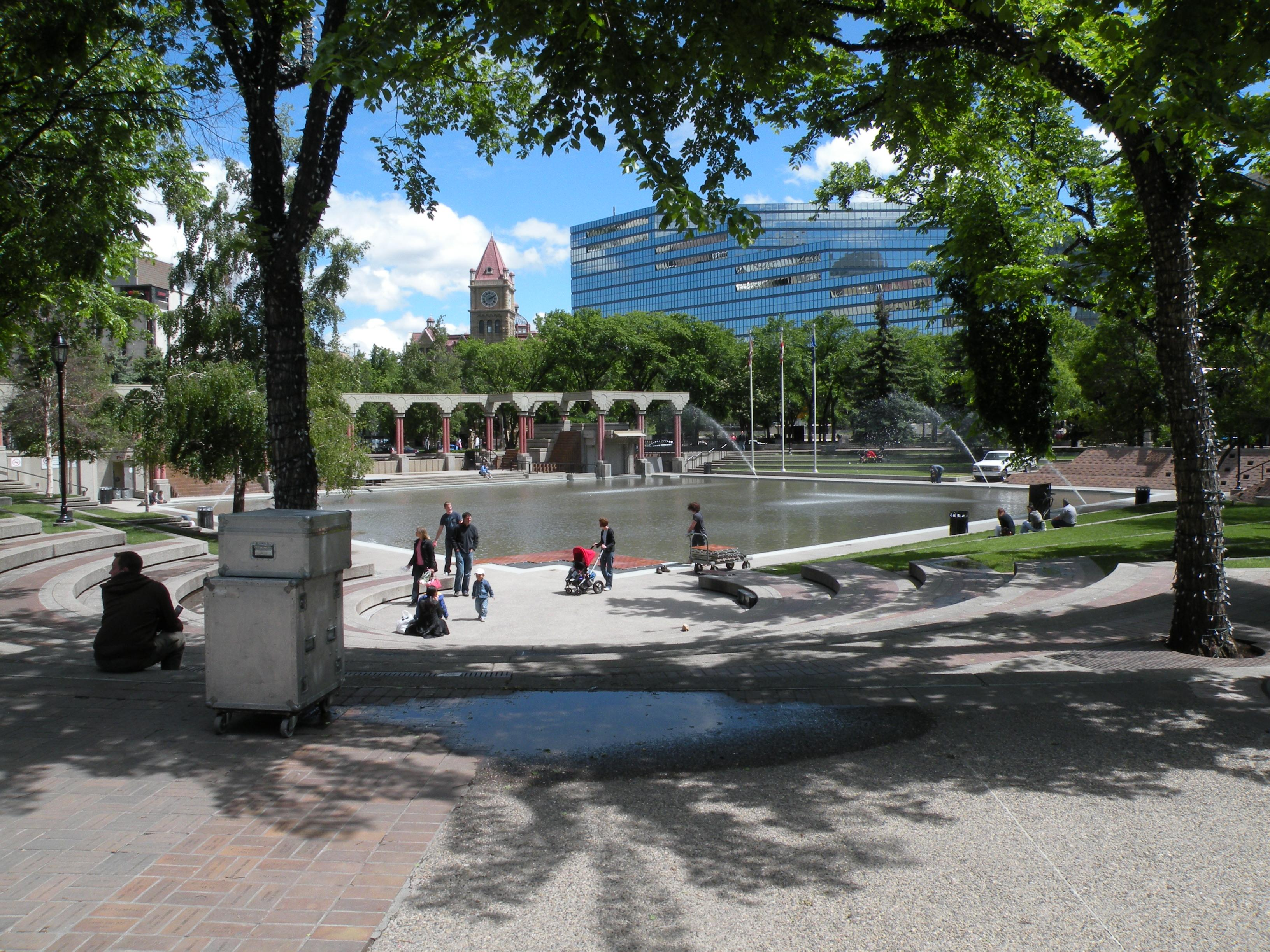 Olympic Plaza in Calgary, Alberta, Canada, June 14, 2008.